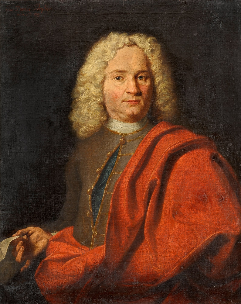 Portrait of a Nobleman